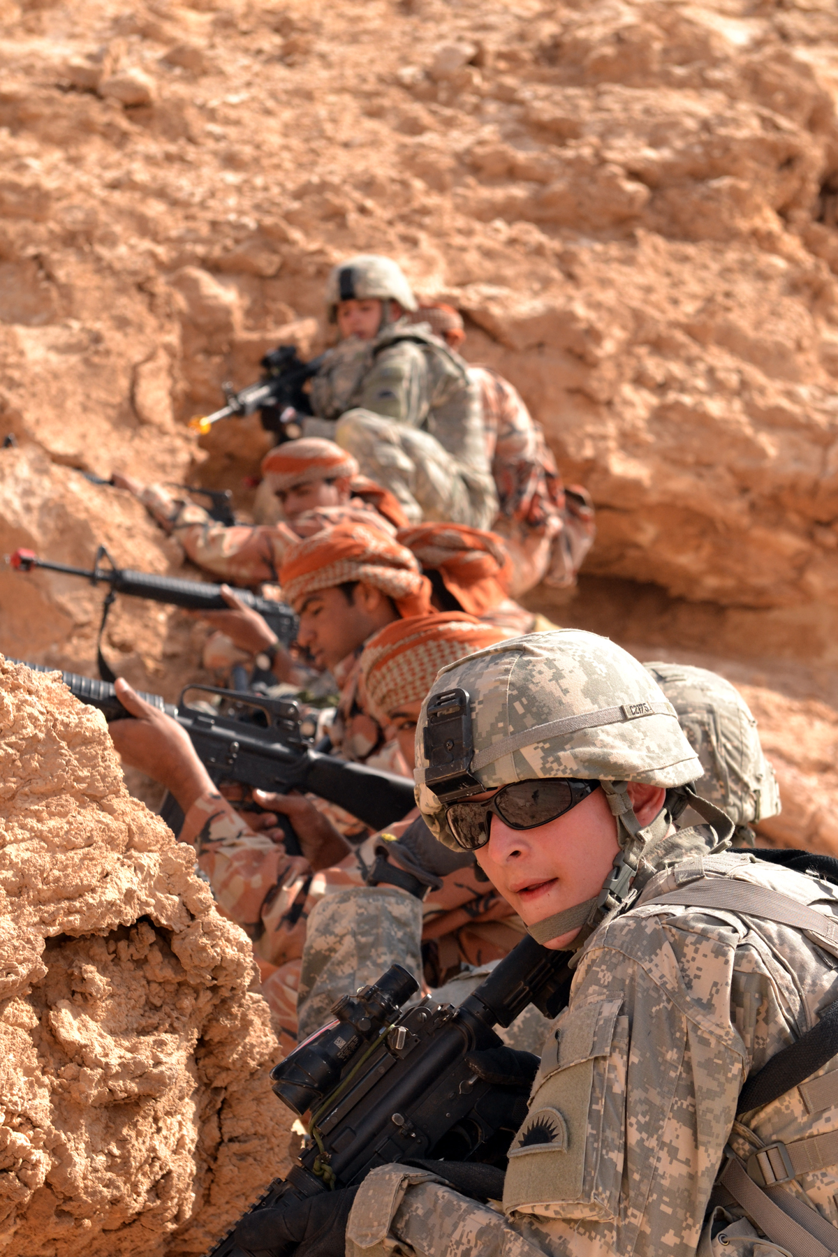 Oregon National Guard Training in Oman An Oregon National Guard Soldier from the 41st Infantry Brigade Combat Team’s 1st Squadron, 82nd Cavalry Regiment, communicates with members of his squad and Soldiers of the Royal Army of Oman’s 11th Brigade, Western Frontier Regiment, at the Rubkut Training Range, Jan. 24. Oregon National Guard Soldiers spent two weeks training with Omani Soldiers, and a platoon from the 125th Forward Support Company from Joint Base Lewis McCord, Wash., during an U.S. Army Central-sponsored event designed to share knowledge and build diplomatic relations. (U.S. Army Photo by Spc. Cory Grogan, Oregon Military Department Public Affairs)